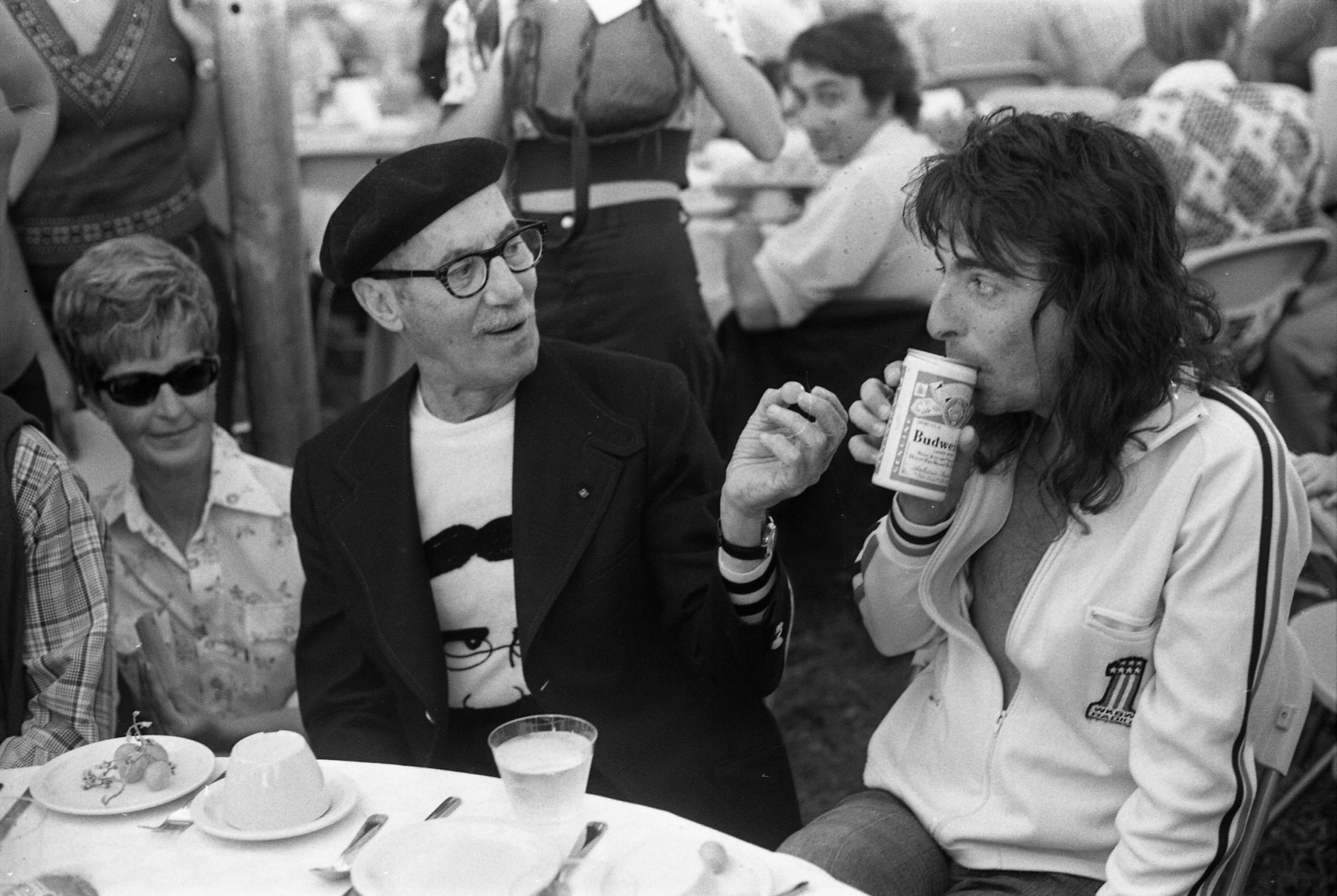 Photo taken at a celebrity fundraising event on the O'Neill family's Rancho Mission Viejo in South Orange County, Oct. 8, 1974. There are no known copyright restrictions on this image. All future uses of this photo should include the courtesy line, "Photo courtesy Orange County Archives." Comments are welcome after reading our Comment Policy. From the Pat O'Donnell Collection, Acc#2015.8.1